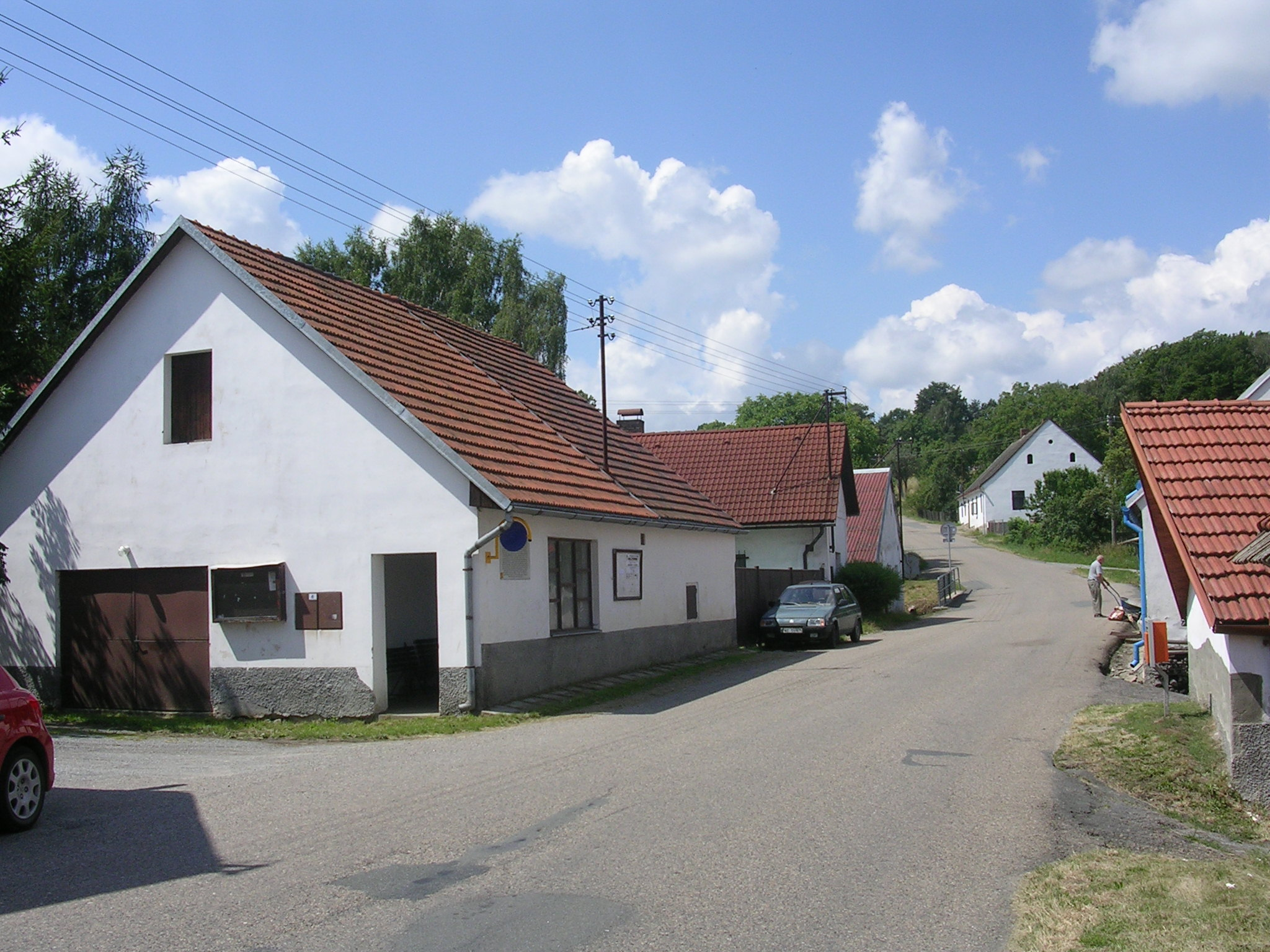 Sušetice, Sedlec-Prčice, Příbram District, Central Bohemian Region, the Czech Republic. A bus stop and a road in the village.